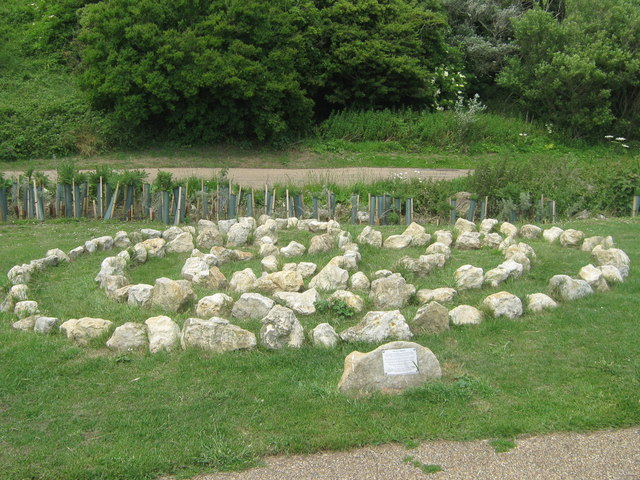 Labyrinth in Lower Leas Country Park This is in a country park in between Sandgate and Folkestone, above the seawall promenade. This artwork was designed by Clare Danstead for Shepway District Council for the park. 'As a contribution to peace and harmony within the ever-changing environment and community of Folkestone. The Labyrinth is a uni-cursal pathway leading to a centre and back out again. Used as a form of walking meditation or prayer.